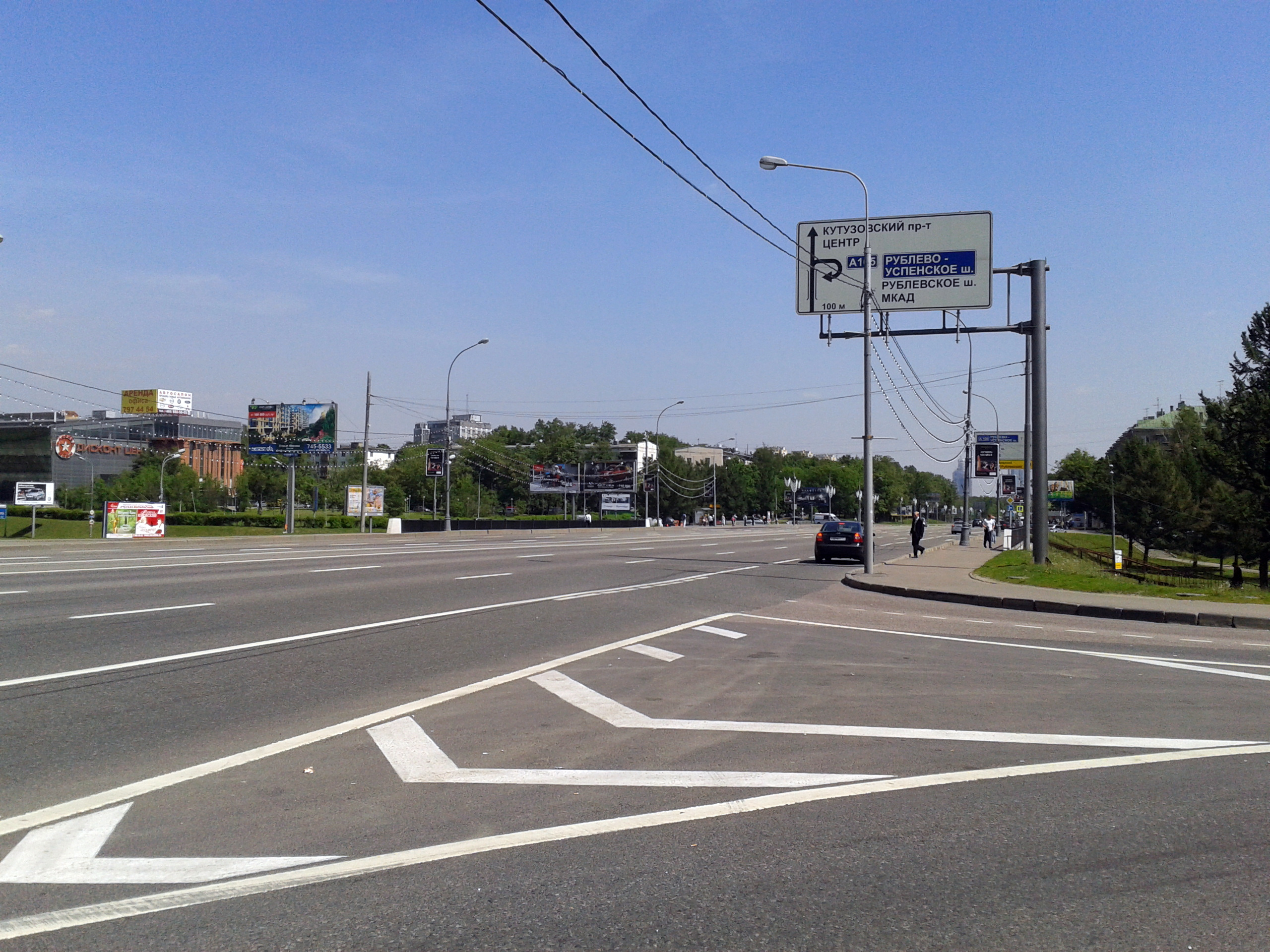 The last kilometer of Kutuzovskiy prospekt. (Rear view).